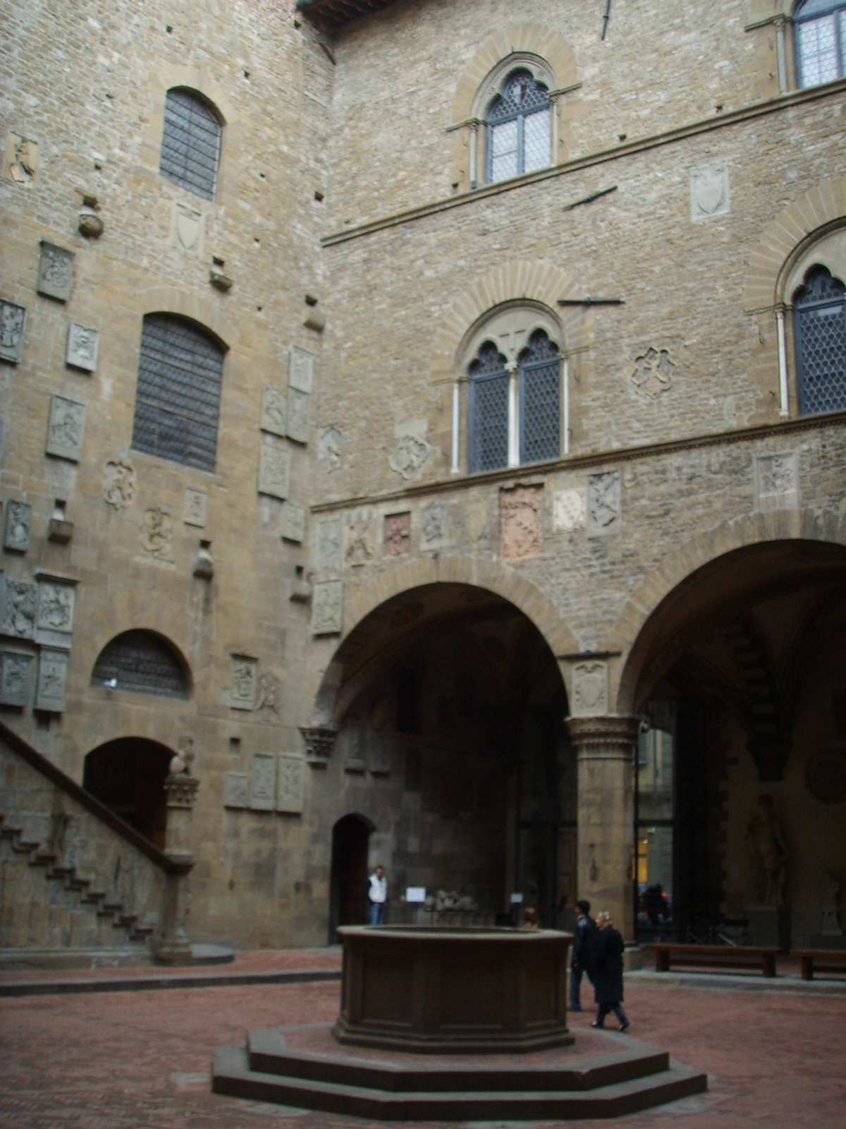 Courtyard of the Palazzo del Bargello in Florence, Italy.